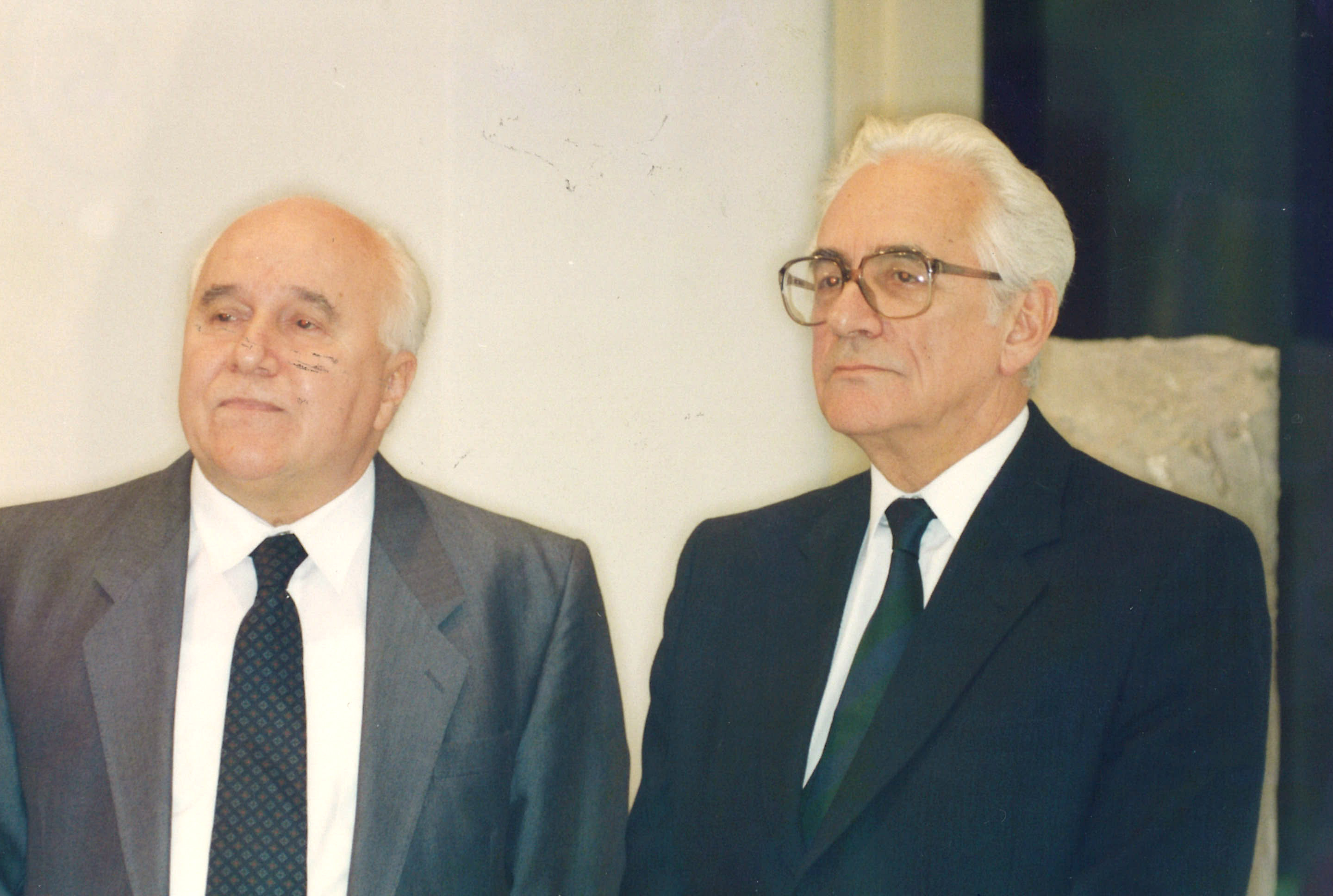 Aleksandar Despić and Dragoslav Srejović